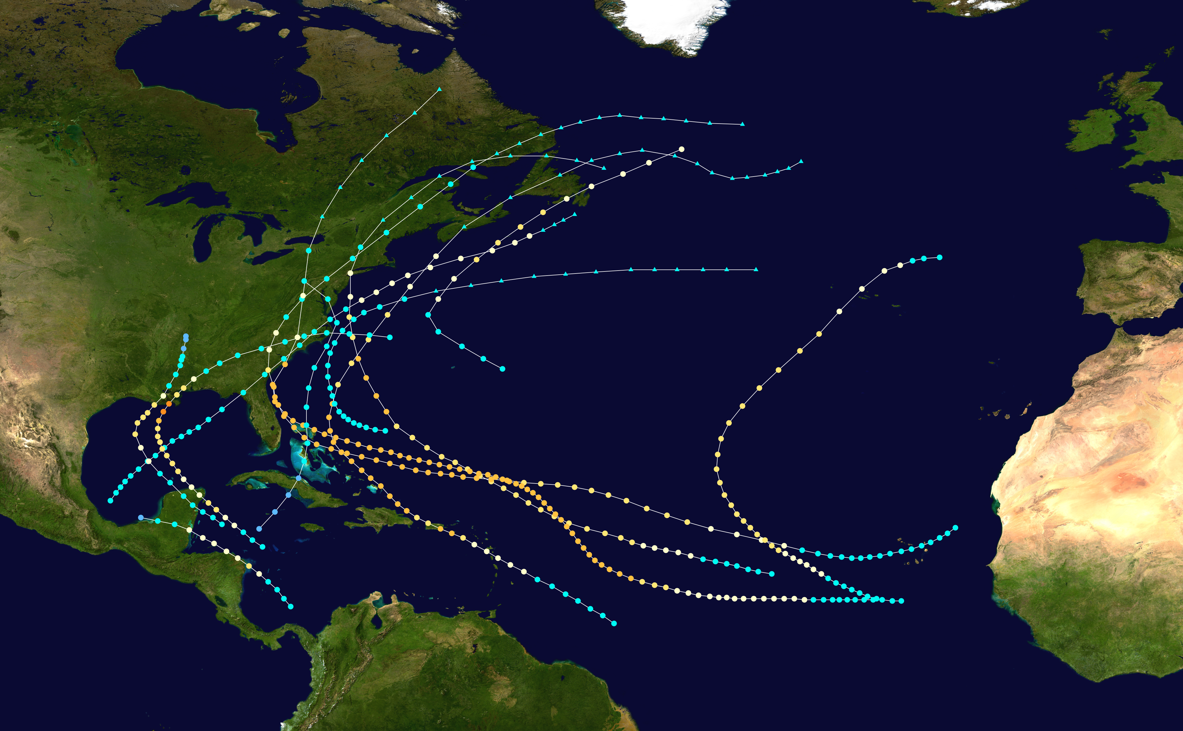 This map shows the tracks of all tropical cyclones in the 1893 Atlantic hurricane season. The points show the location of each storm at 6-hour intervals. The colour represents the storm's maximum sustained wind speeds as classified in the Saffir-Simpson Hurricane Scale (see below), and the shape of the data points represent the type of the storm. Saffir–Simpson scale Tropical depression≤38 mph≤62 km/h Category 3111–129 mph178–208 km/h Tropical storm39–73 mph63–118 km/h Category 4130–156 mph209–251 km/h Category 174–95 mph119–153 km/h Category 5≥157 mph≥252 km/h Category 296–110 mph154–177 km/h Unknown Storm type Tropical cyclone Subtropical cyclone Extratropical cyclone / Remnant low / Tropical disturbance / Monsoon depression